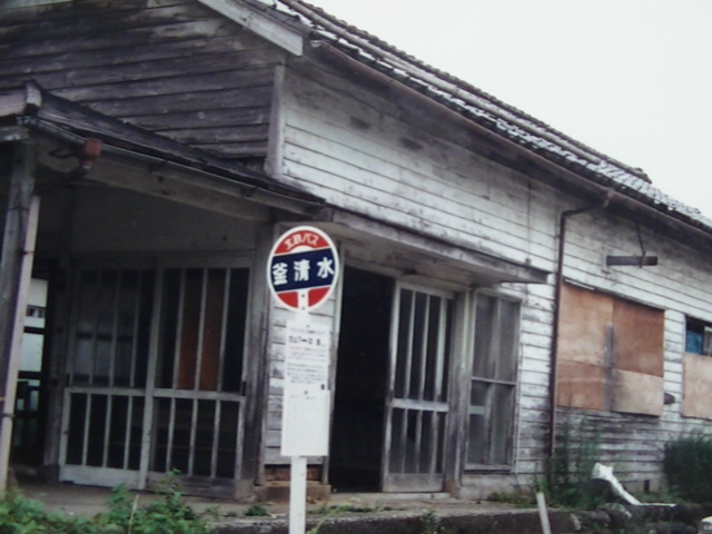 Hokutetsu Kinmei line Kamashimizu station